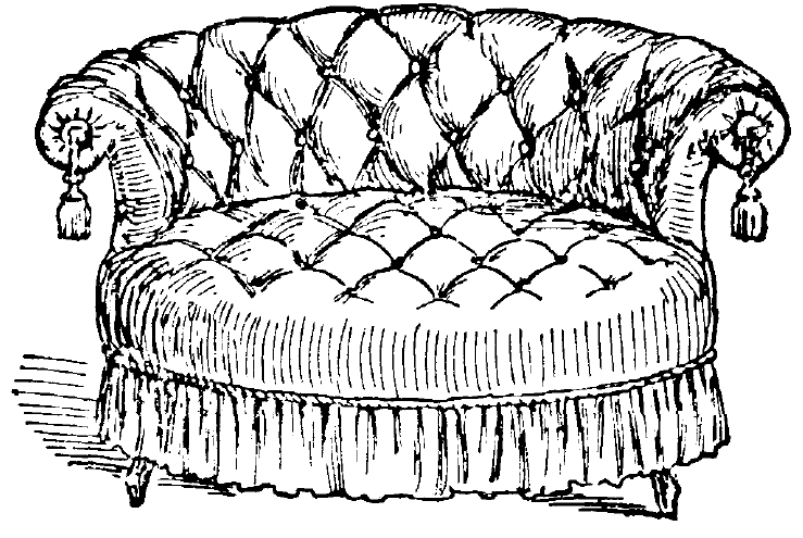 Loveseat